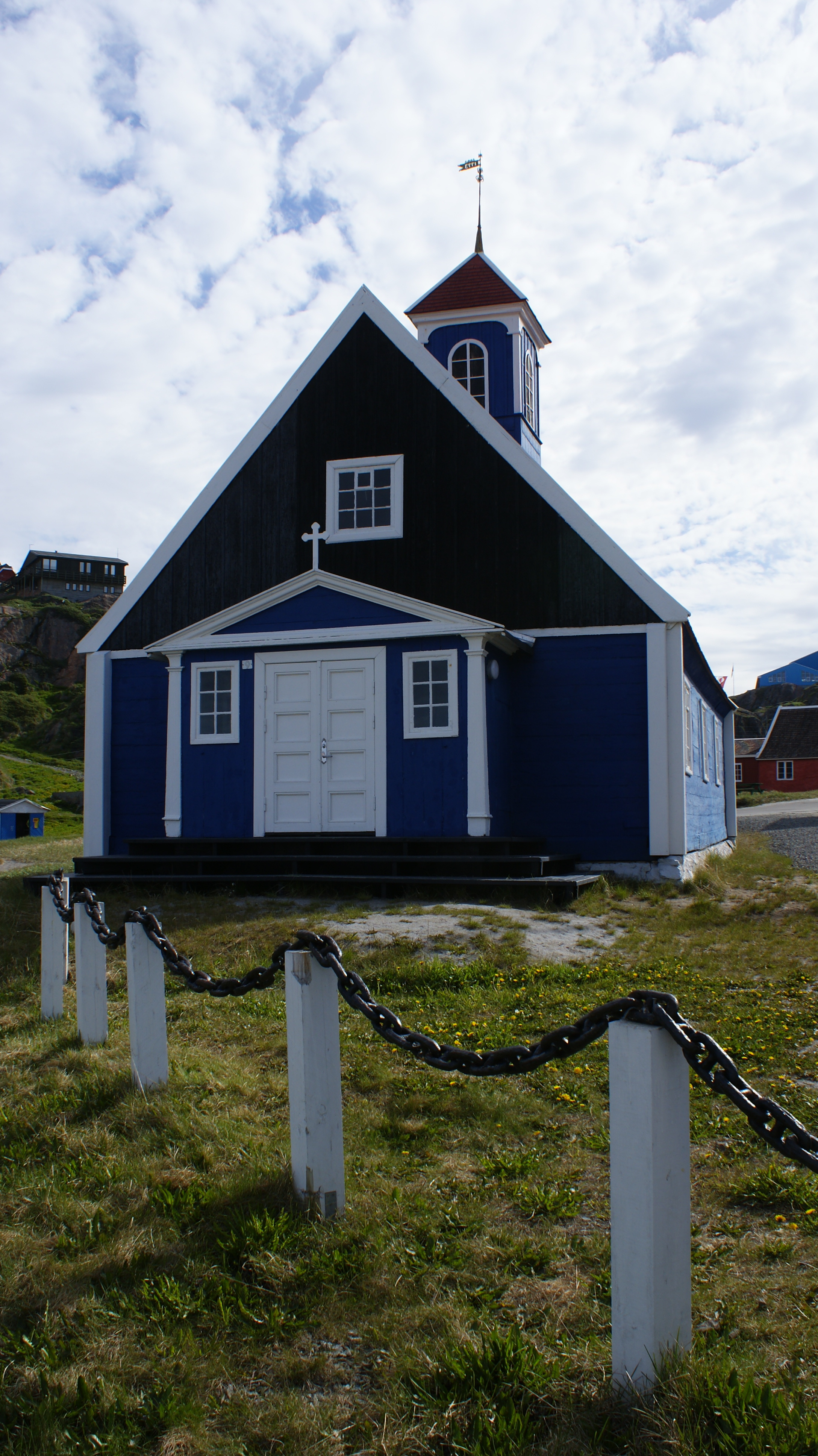 The old Bethel church in Sisimiut, Greenland, dating from 1755.